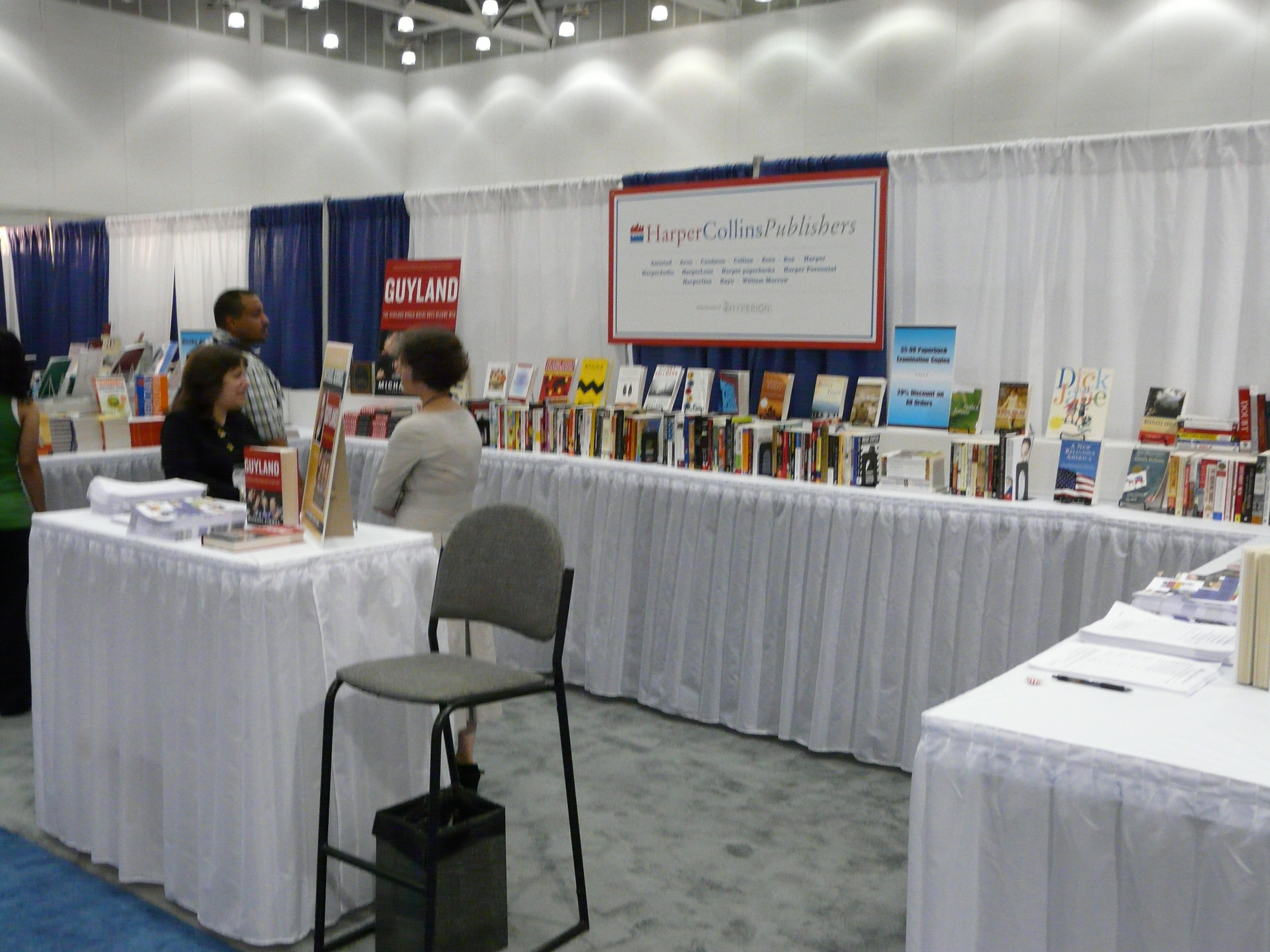 Boston. American Sociological Association conference.